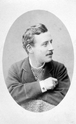 This is a photograph of Alexander Morrison (1849-1913), first Government Botanist of Western Australia